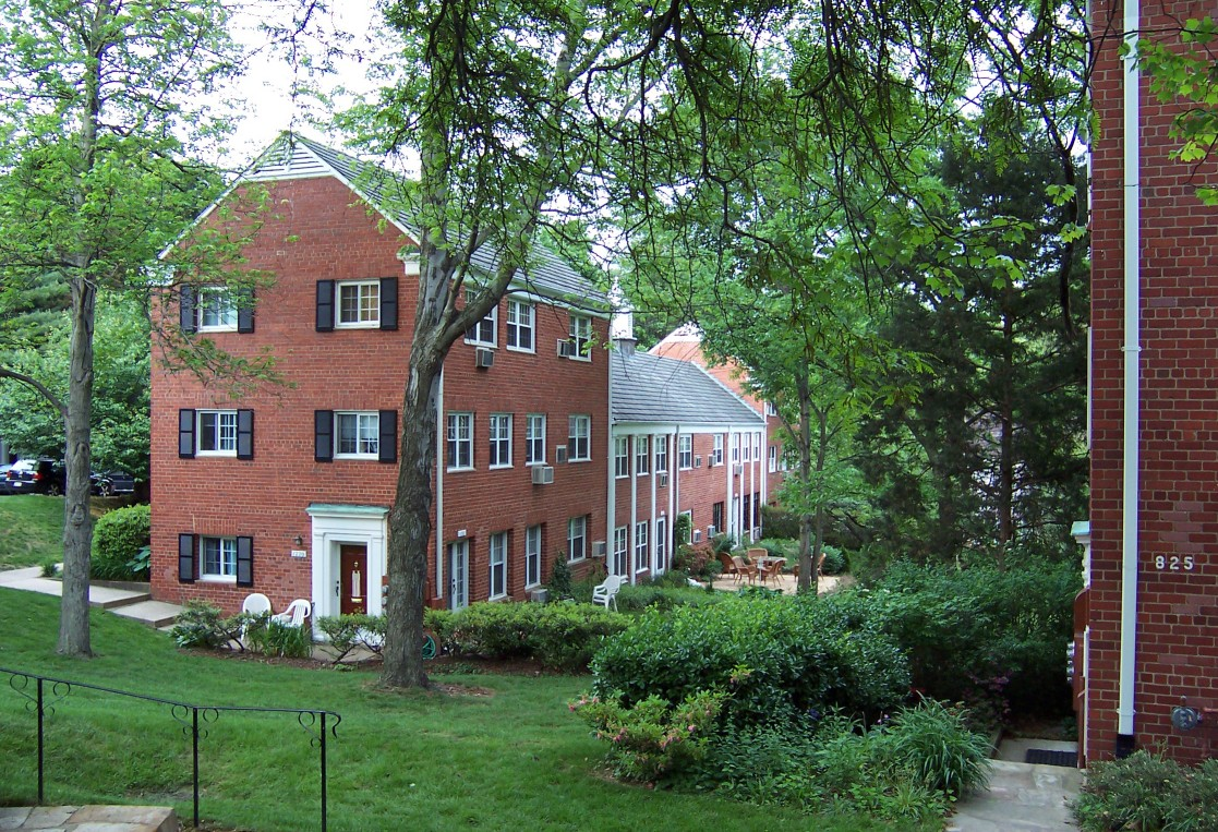 Near Preston Road and Martha Custis Drive in Parkfairfax, Alexandria, Virginia, USA